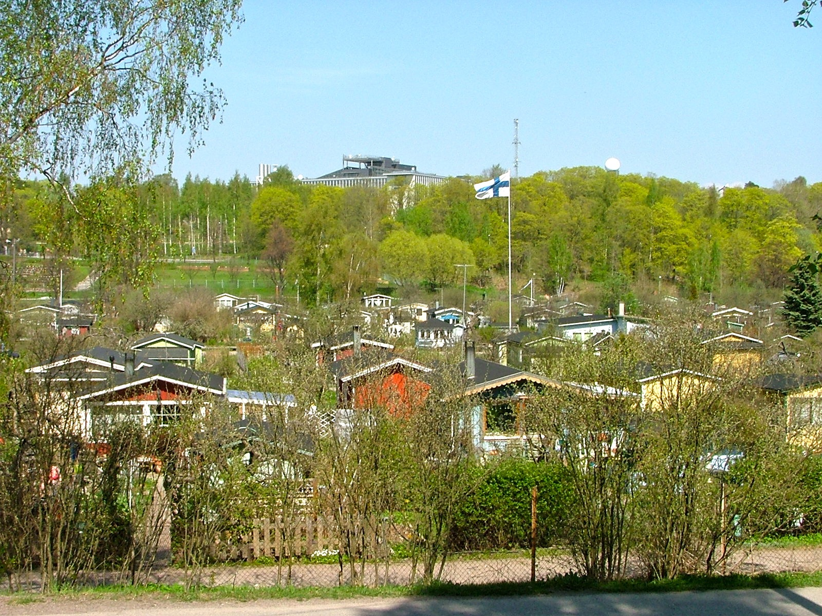 Vallila allotment gardens in Helsinki, Finland. Buildings of Kumpula campus are visible in the background.